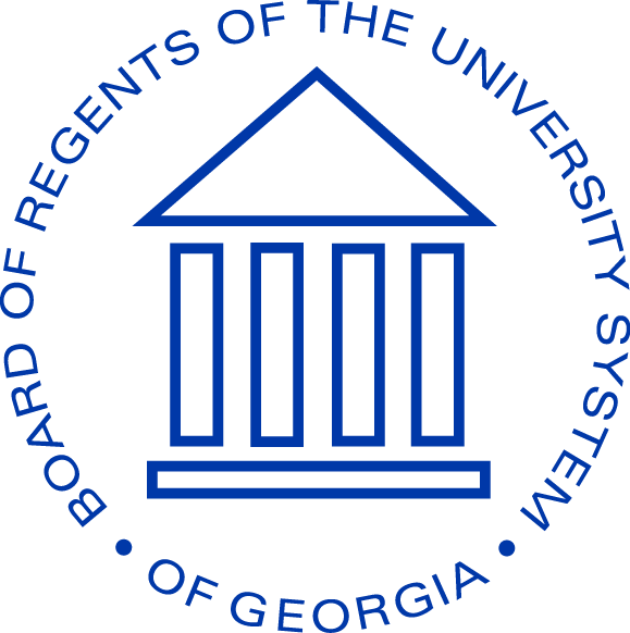 University System of Georgia logo